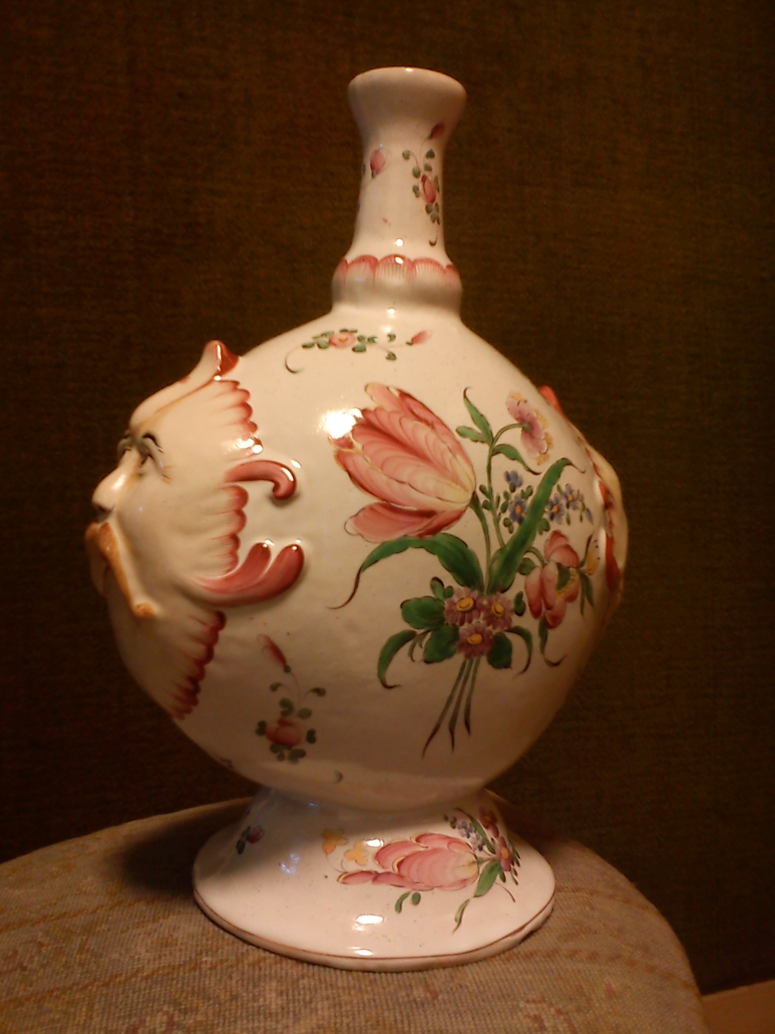 Alsacian faience, Strasbourg style.